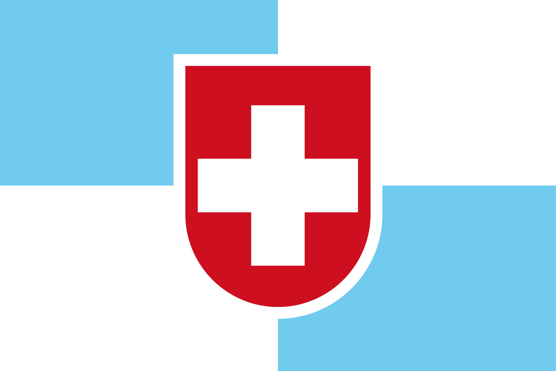 Flag of Nueva Helvecia city (Dept. of Colonia, Uruguay)